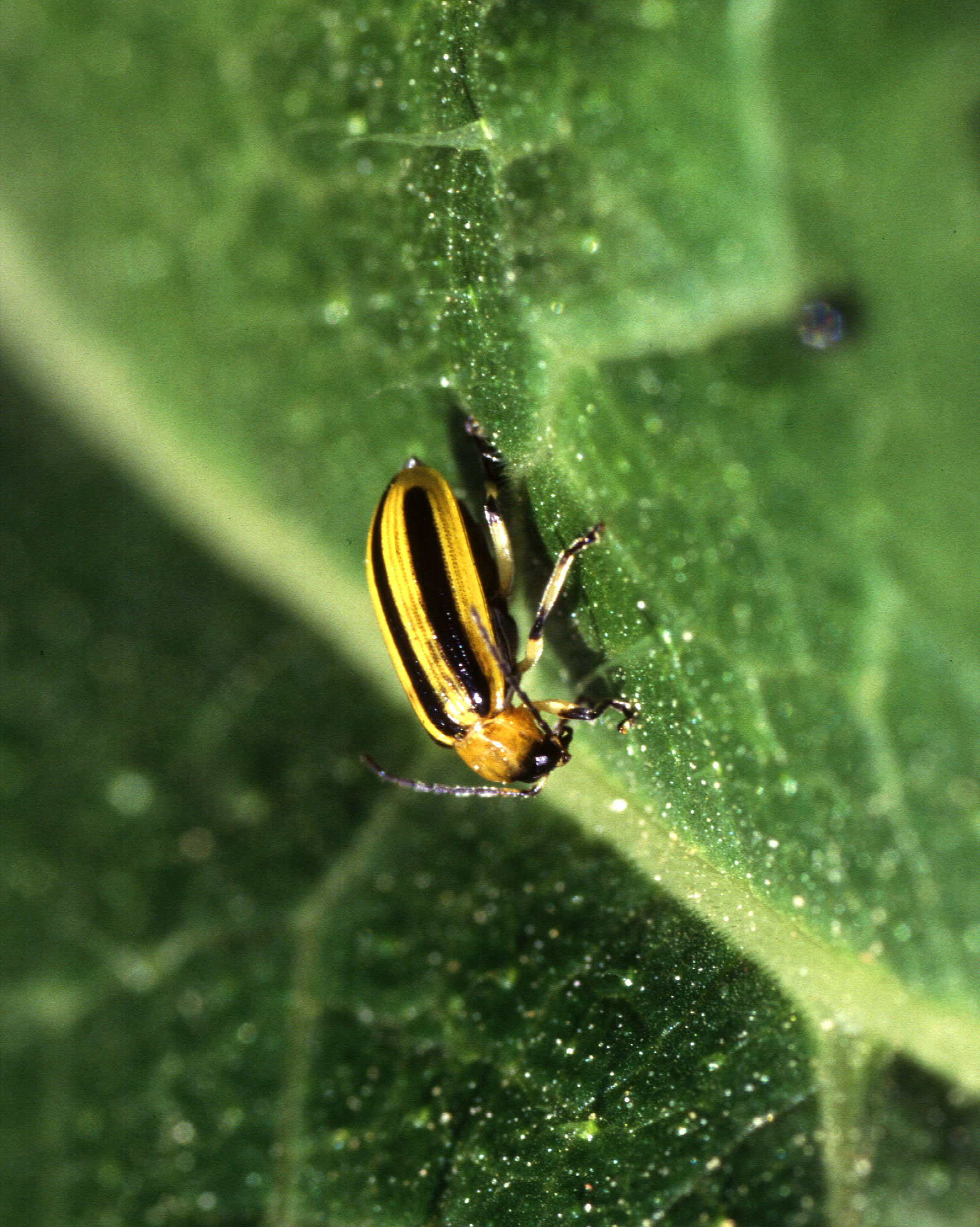 "Cucumber beetle" from Image Number K7765-1 "Cucumber beetle". Photo by Scott Bauer.